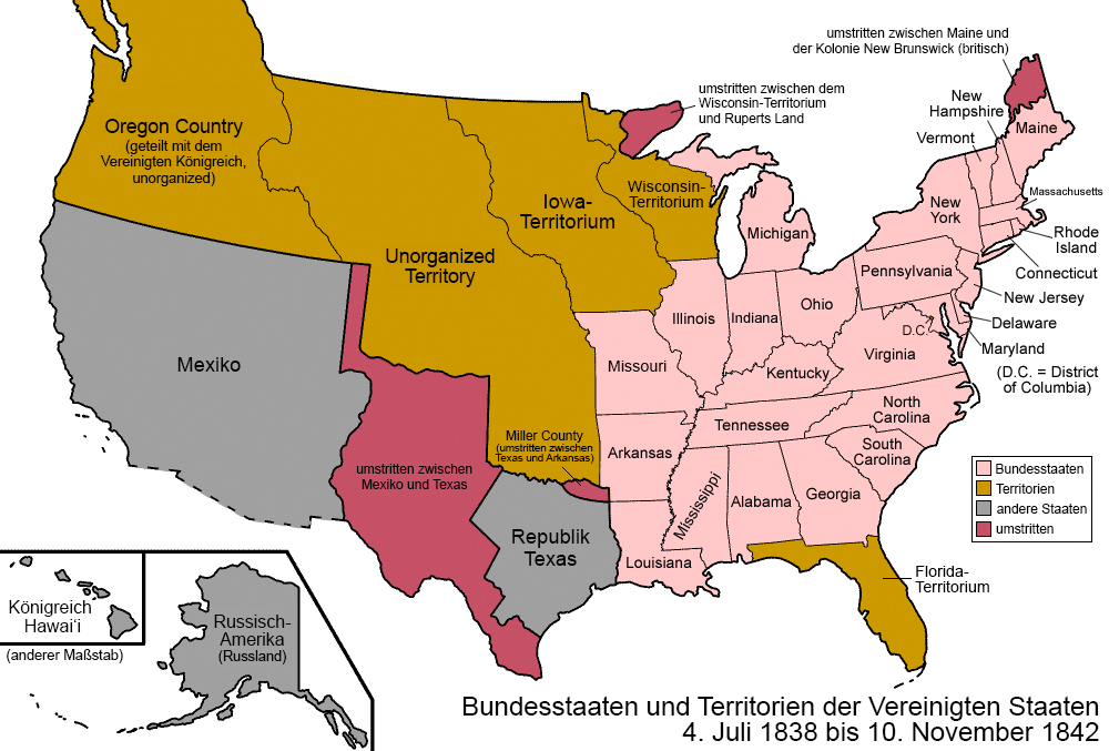 Map of the states and territories of the United States as it was from 1838 to 1842. On July 4 1838, Iowa Territory was split from Wisconsin Territory. On November 10 1842, a treaty settled all border disputes with lands held by the United Kingdom. German version.